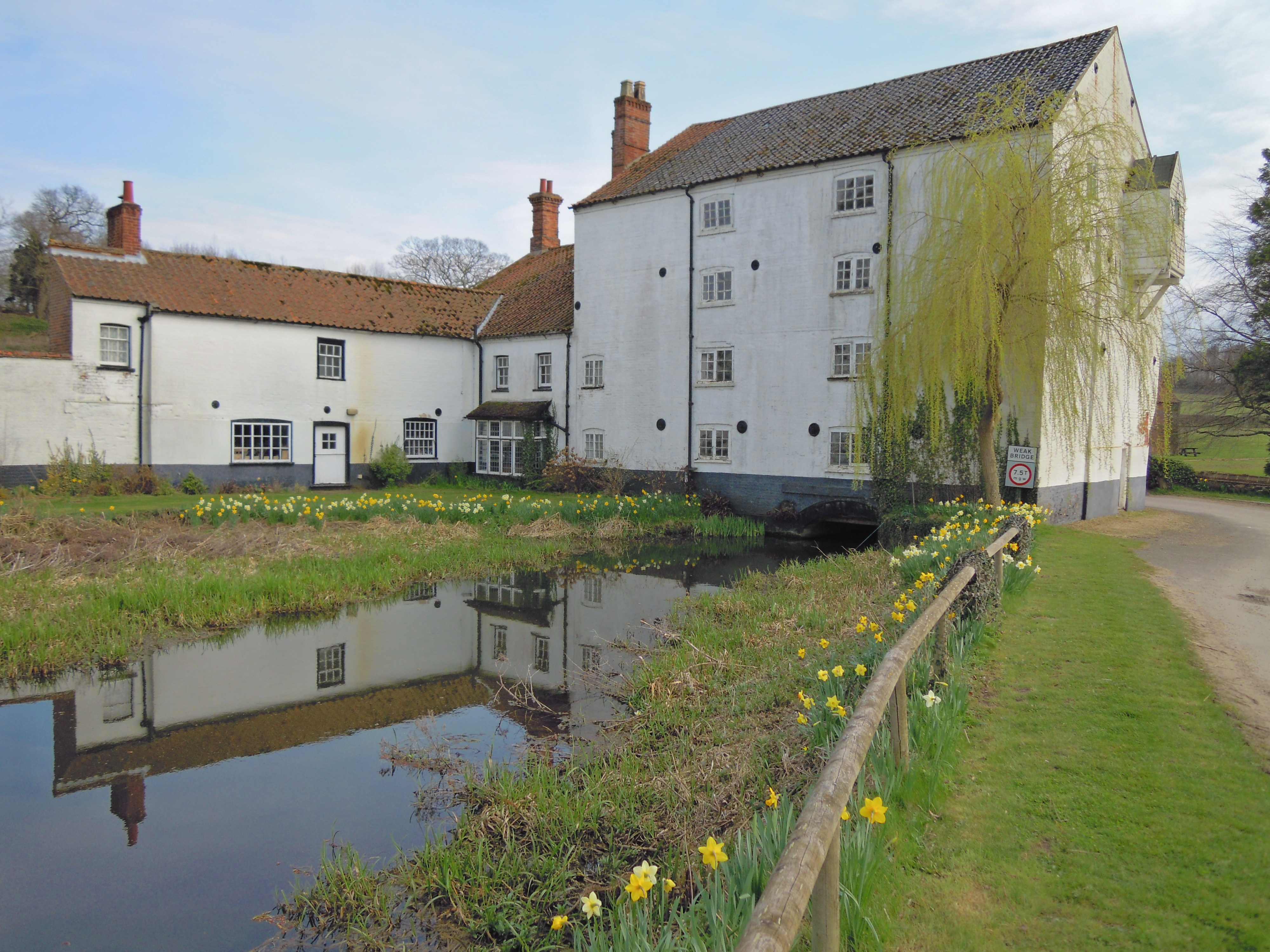 Bintry Watermill near the village of Bintree in the county of Norfolk. The mill is located on the River Wensum.